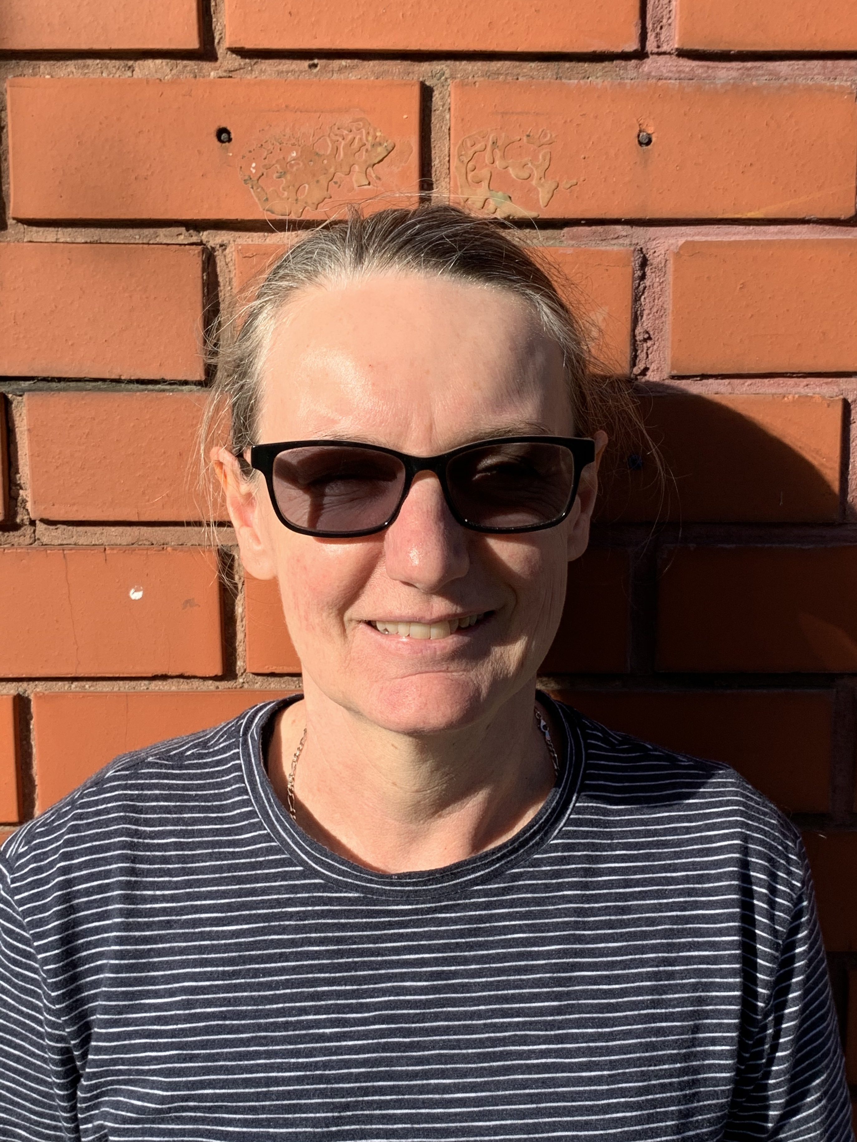 Photograph of Caroline Phillips, Australian visual artist. Taken by myself with subjects permission.